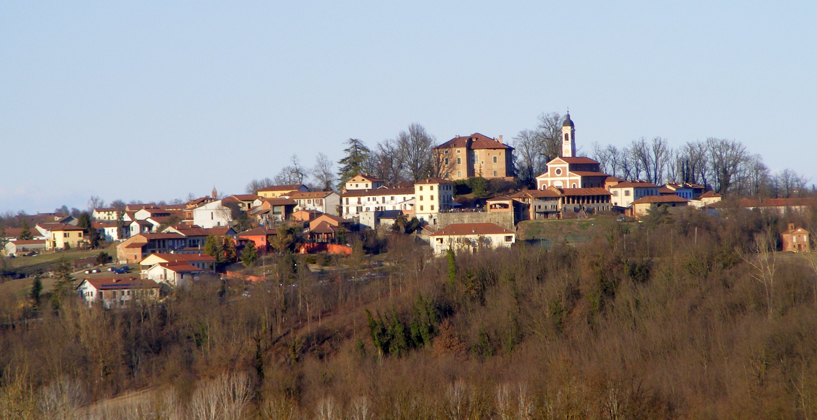 Roatto (AT): panorama from Madonna di Volpiglio